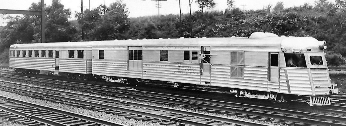 Photo of the Texas and Pacific train, Silver Slipper, at the Budd factory in 1933. The train was gasoline-powered. Note the photo uploaded is of better quality than the one shown in the newspaper scan. Renewal searches were done in publications for the years 1960 and 1961. There were no listings for the Big Spring Daily Herald; there's no evidence of renewal.